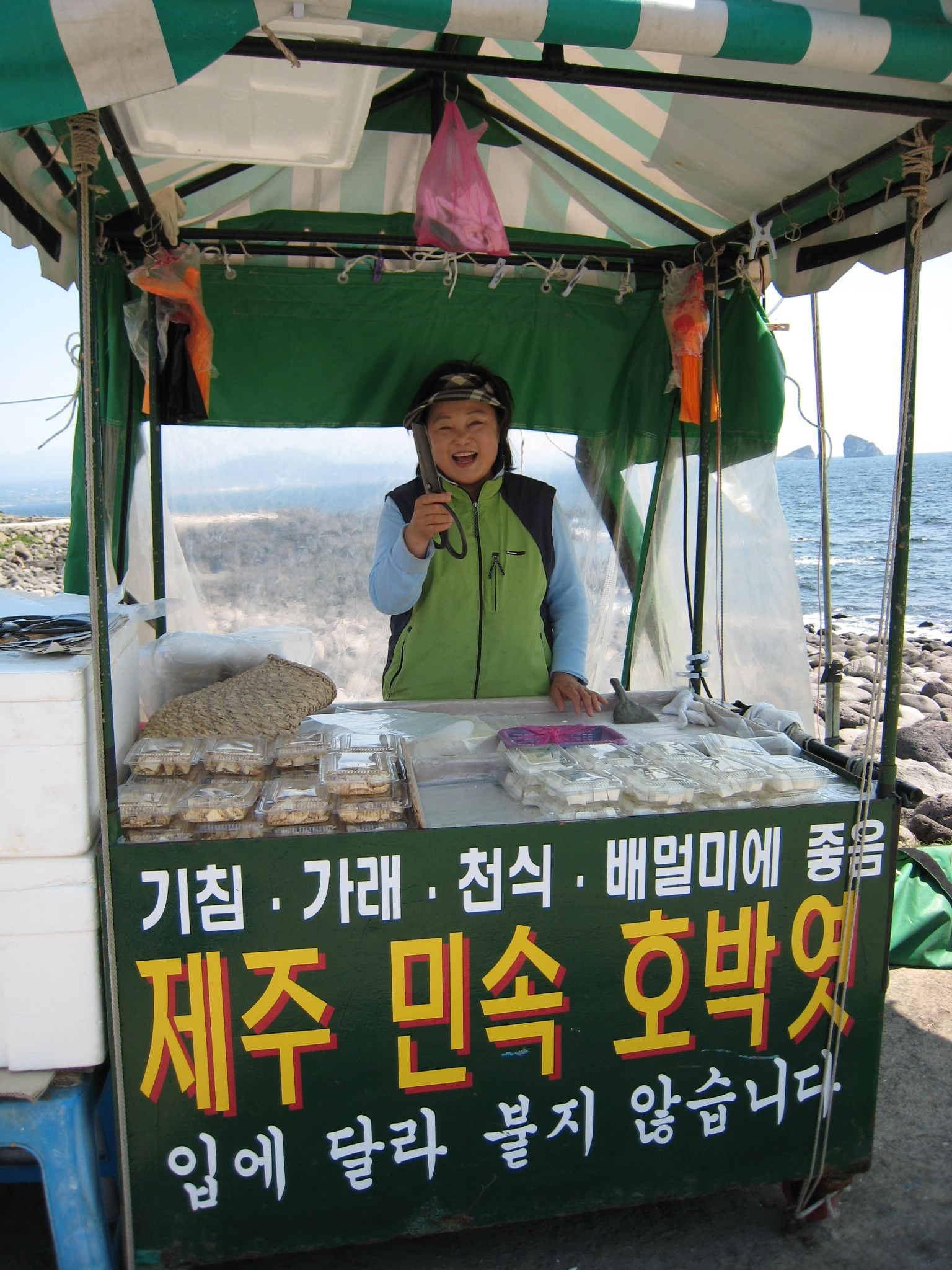 Hobakyeot (호박엿), yeot (Korean traditional candy) made with squash